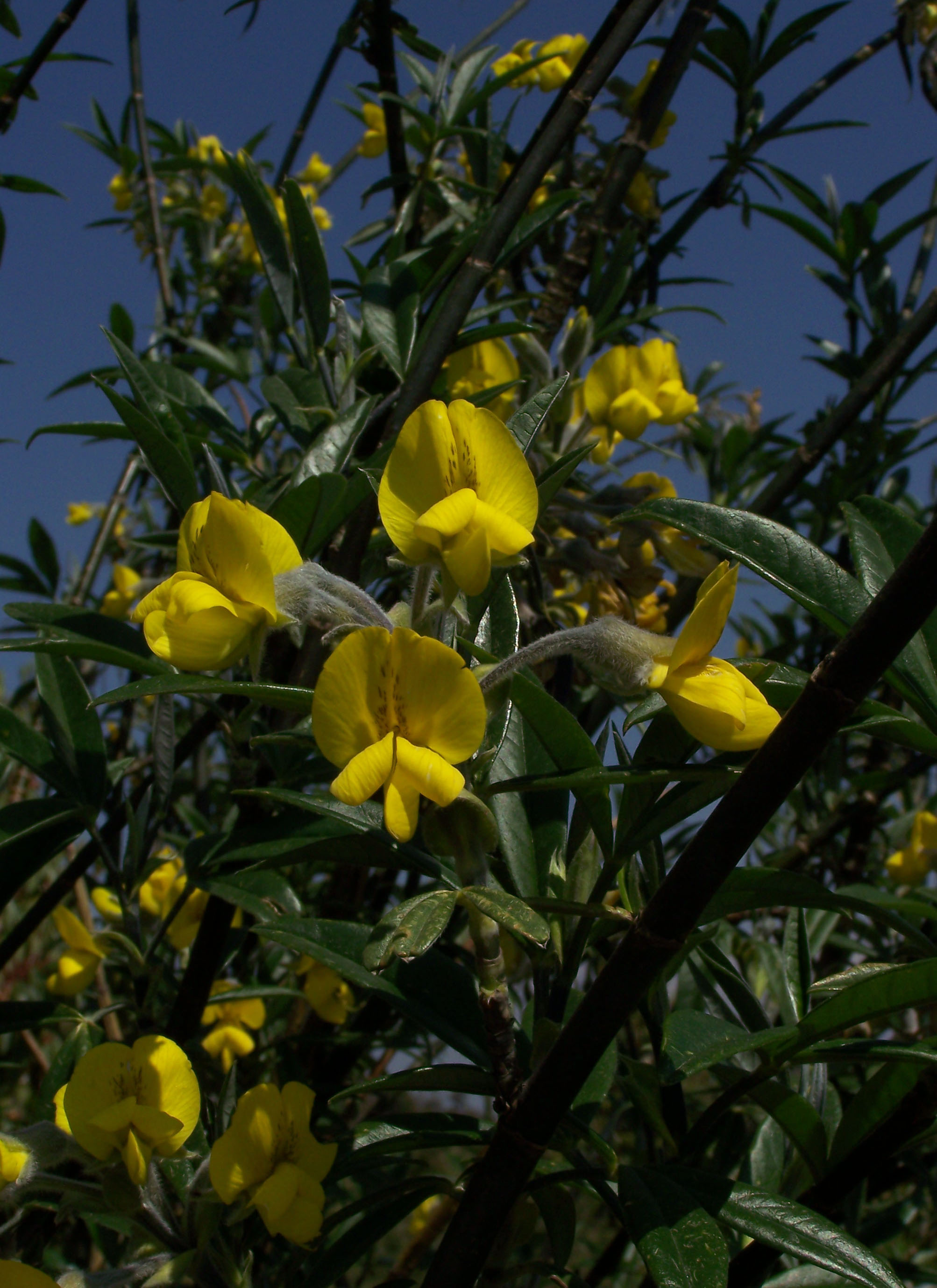 See User:Woudloper/Himalayan flora. Piptanthus nepalensis (Evergreen Laburnum). May, 3100 m, Poon Hill, Annapurna region, Nepal.